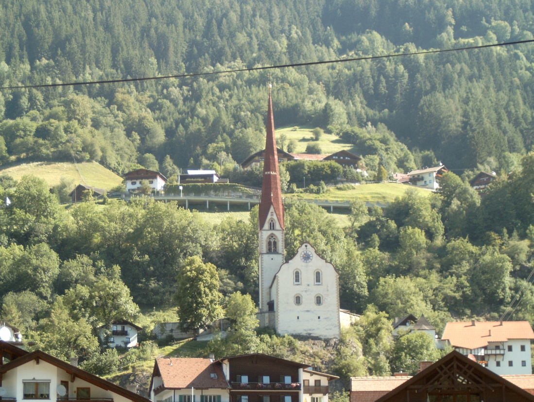 "Kühtaisattel", west ramp above "Oetz"